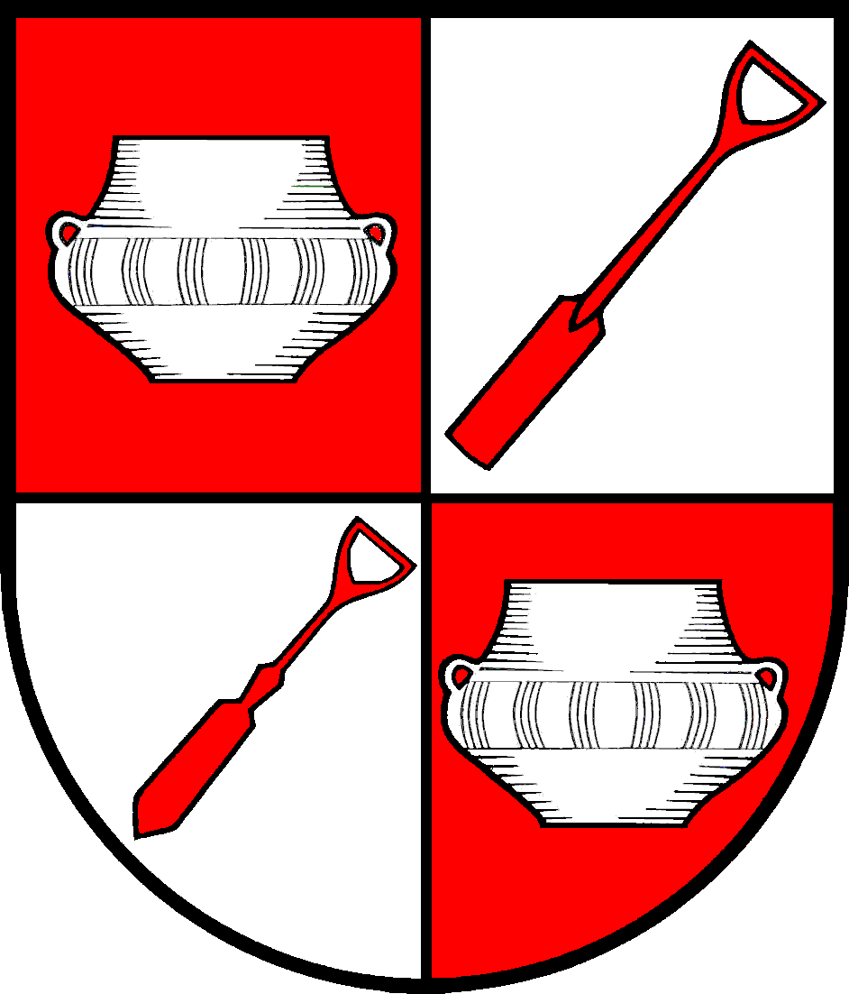 Coat of arms of the municipality Hemdingen in Schleswig-Holstein, Germany.